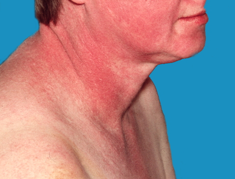 Dermatomyositis, V-sign rash. Confluent macular erythema involving the face, the neck and extending to form a V-sign rash on the upper chest. Note the sparing in the submental area, a sun protected area. Photosensitivity is thought to play a role in dermatomyositis